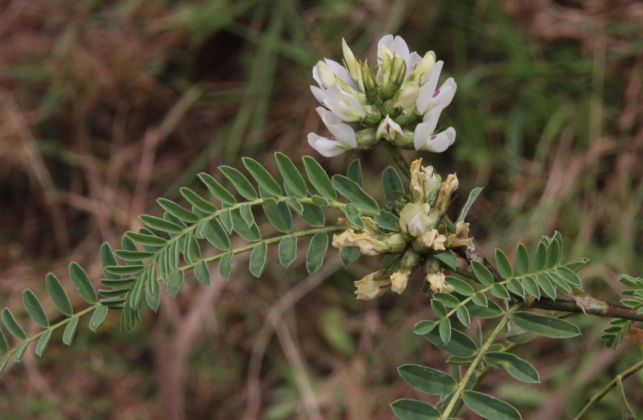 Photo of Astragalus garbancillo uploaded from iNaturalist.